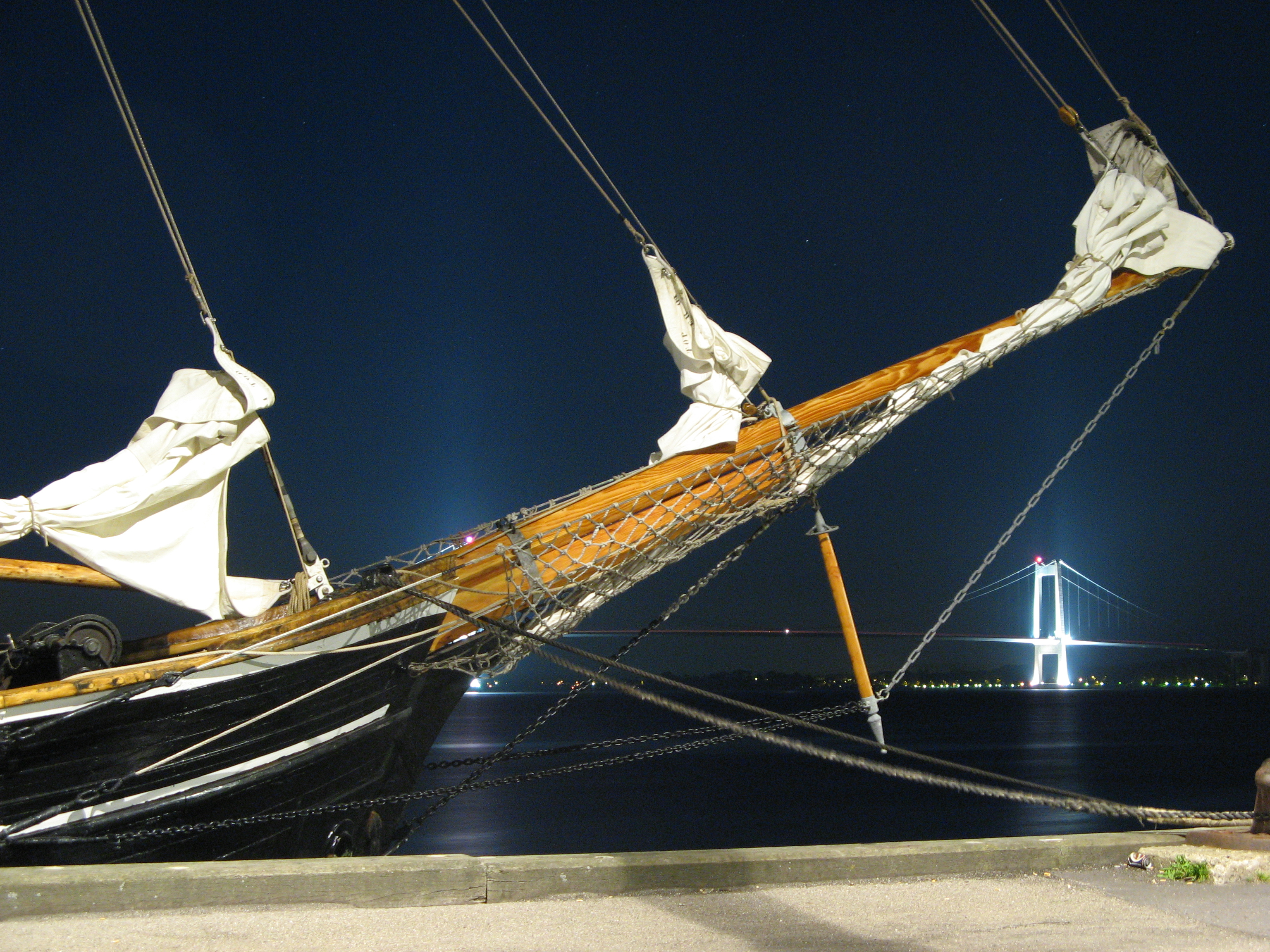 Bow of the SS Albatros near Middelfart, Denmark, in front of the Little Belt Bridge (1970)